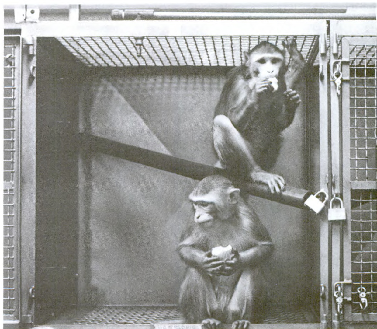 77-cm primate cage